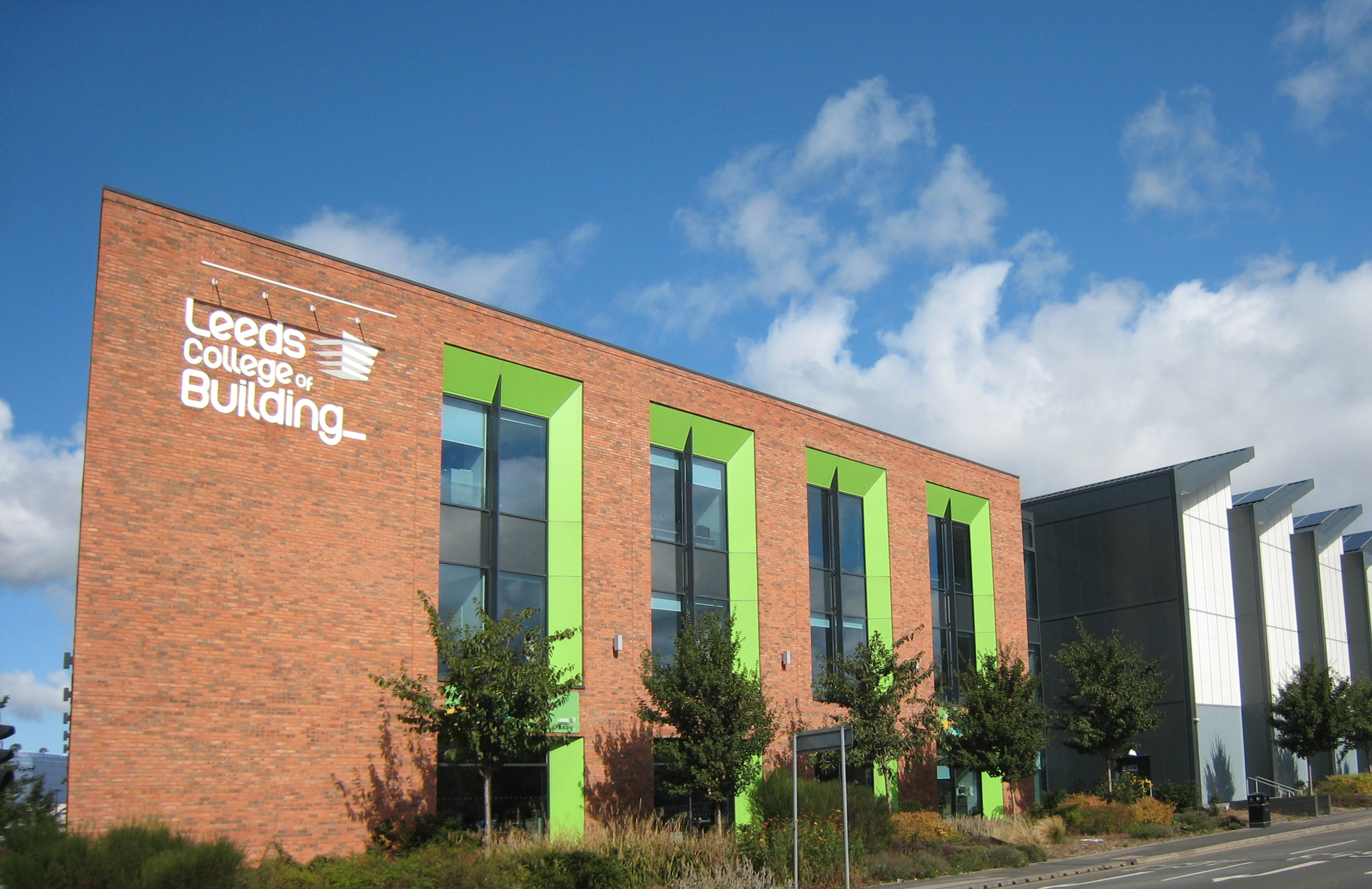 Leeds College of Building, Black Bull Street, Hunslet, Leeds